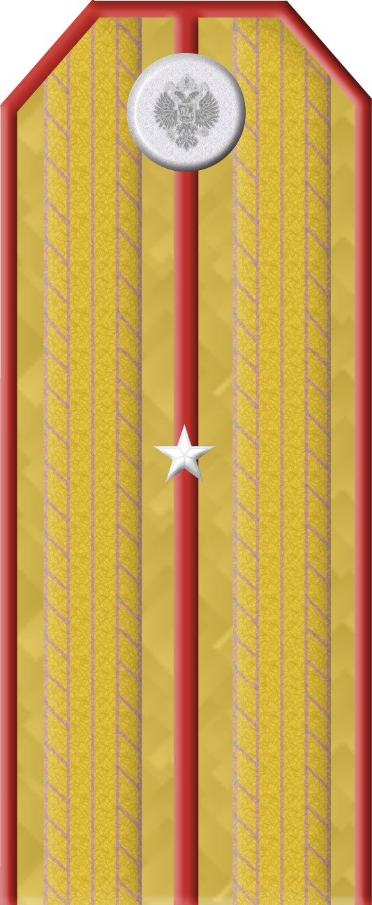 Rank insignia of the Imperial Russian Army, here "Praporshchik" – shoulder strap. Particularity: Rank of the infantry and artillery in war times only.